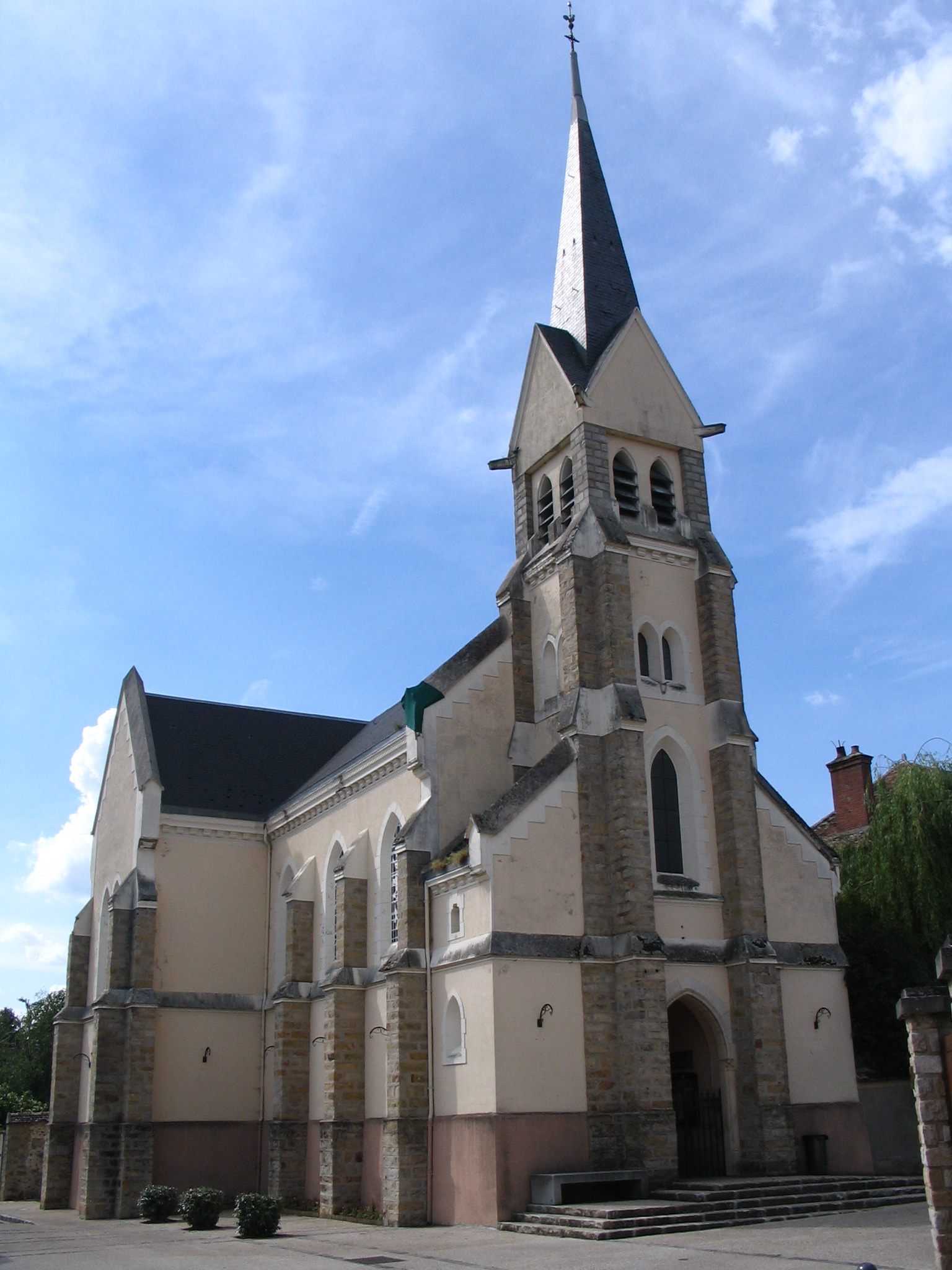 The church of Vulaines-sur-Seine, Seine-et-Marne, France.